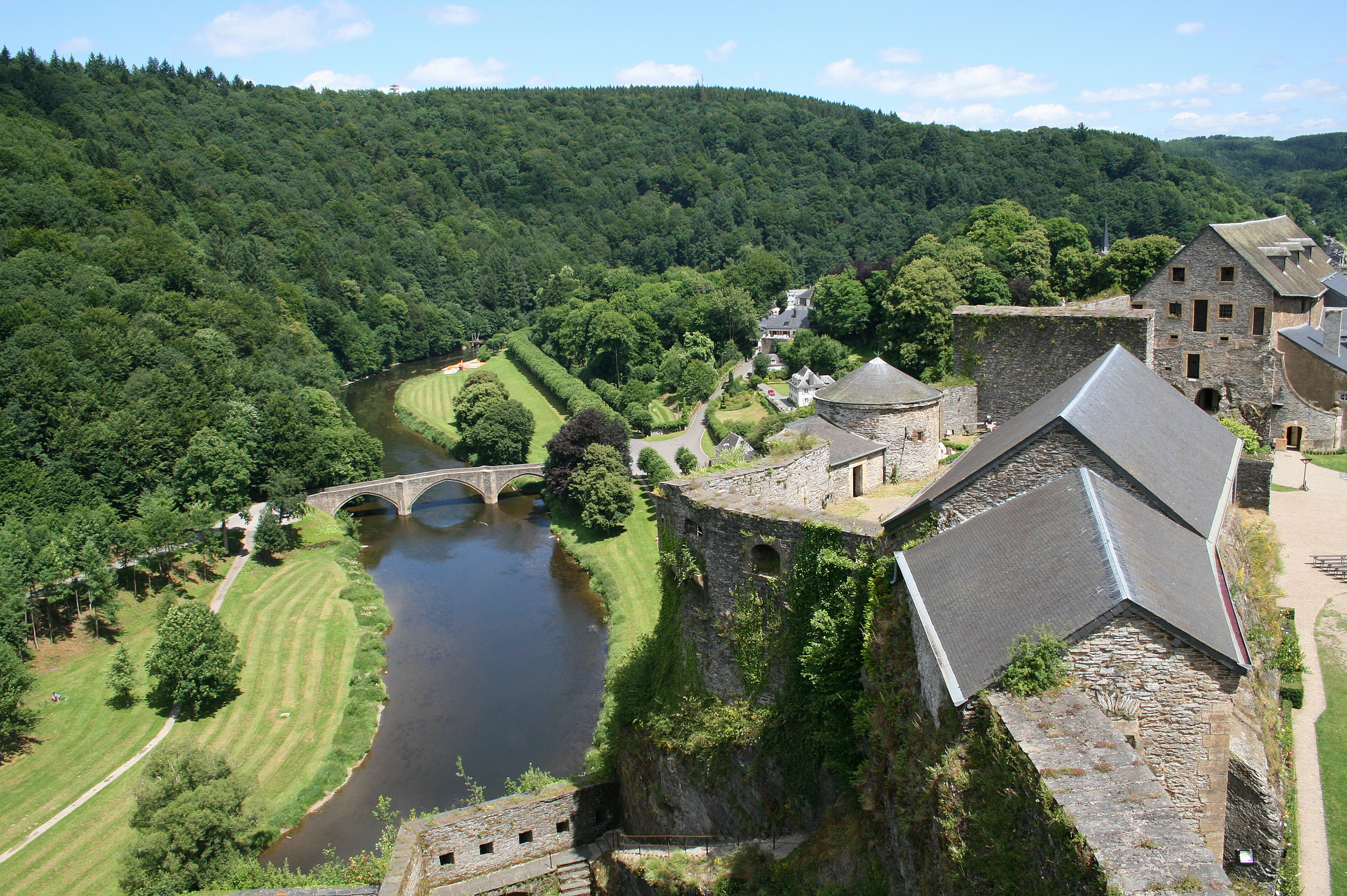 Bouillon (Belgium): the fortified castle (Xth–XVIth centuries) – the big and the little powder-magazines, the horn (corne) of Turenne, the arsenal and the bridge on the Semois river viewed from the tower of Austria.